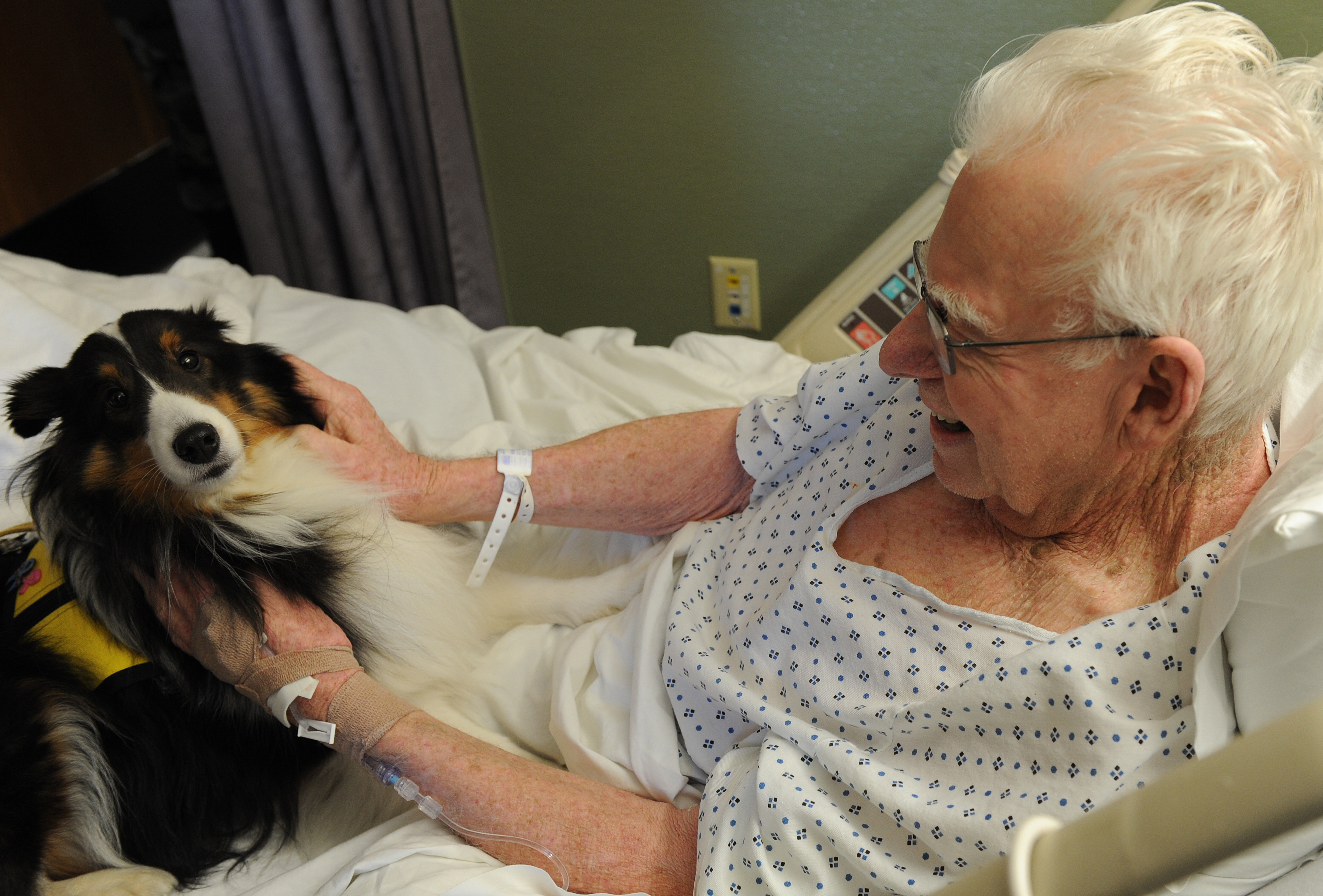 LANGLEY AIR FORCE BASE, Va. -- Gene Mohr, a retired technical sergeant, pets Molly, a 3-year-old Sheltie at Langley Hospital Jan. 30. Mollie does about 10 animal assisted therapy visits throughout the Hampton Roads Area. She has been visiting Langley Air Force Base weekly since January.